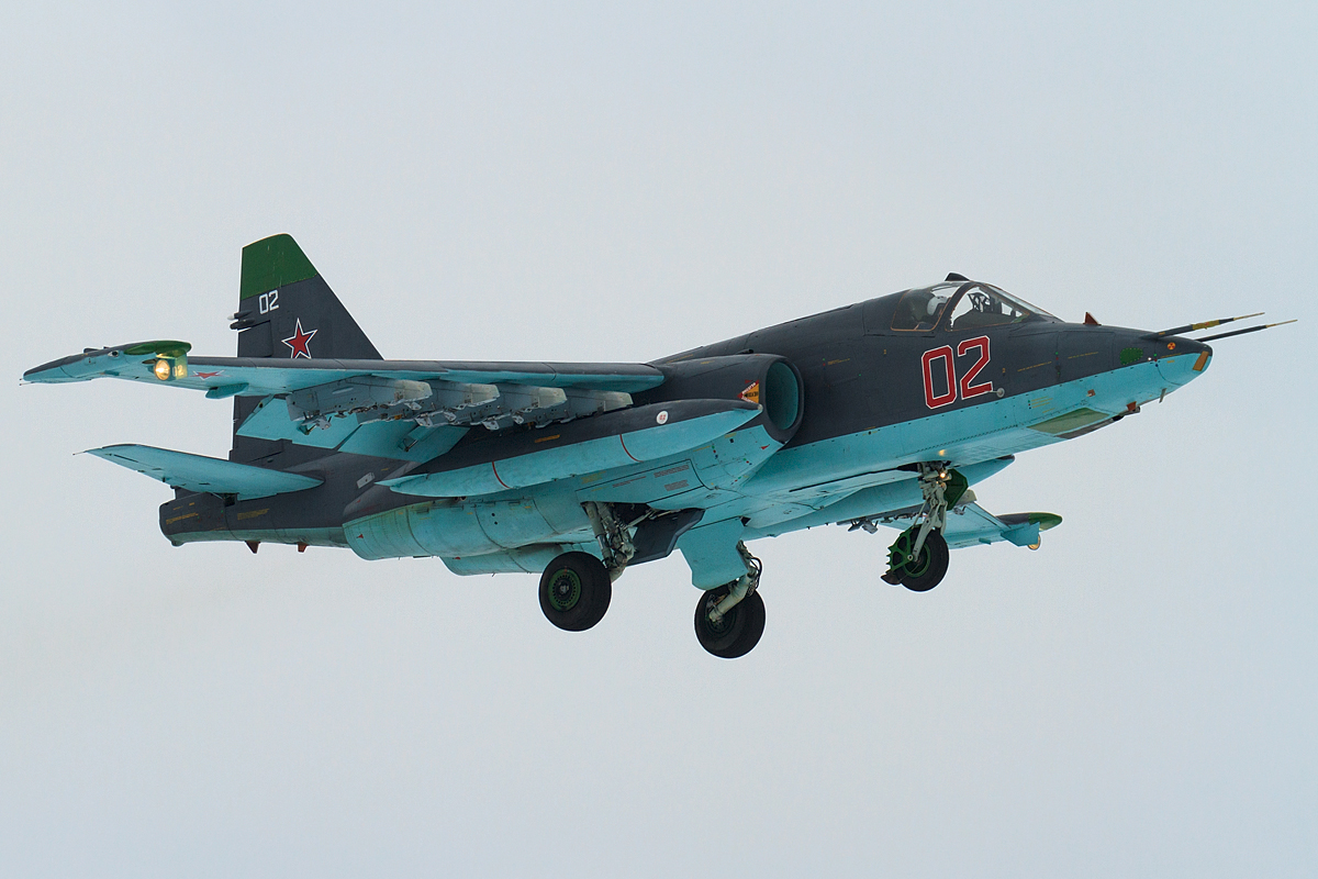 Russian Air Force Sukhoi Su-25